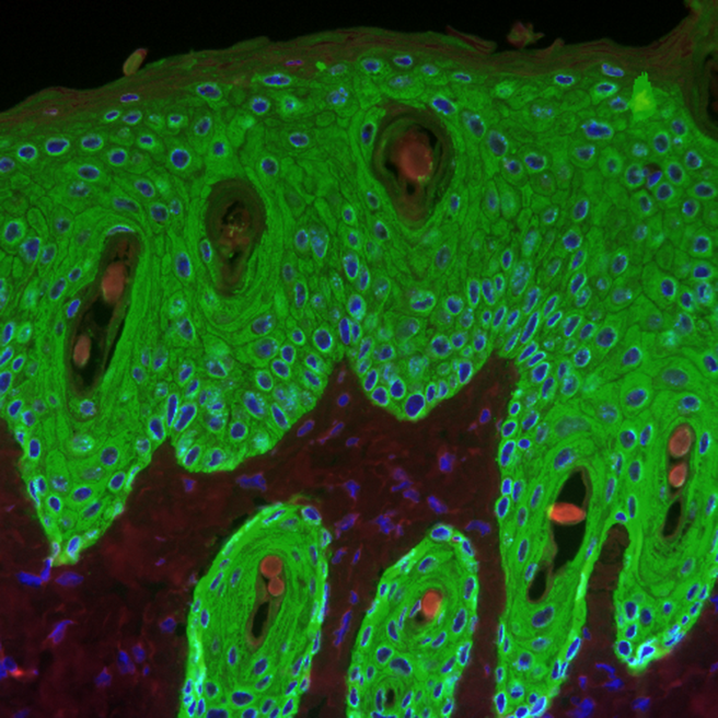 Skin section showing the proliferative response induced by a tumor promoter in the epidermis of a wild-type mouse Keratinocytes are shown in green. As reported by Menacho-Márquez et al., this reaction is severely reduced in Vav-deficient mice. Image Credit: M. Menacho-Márquez